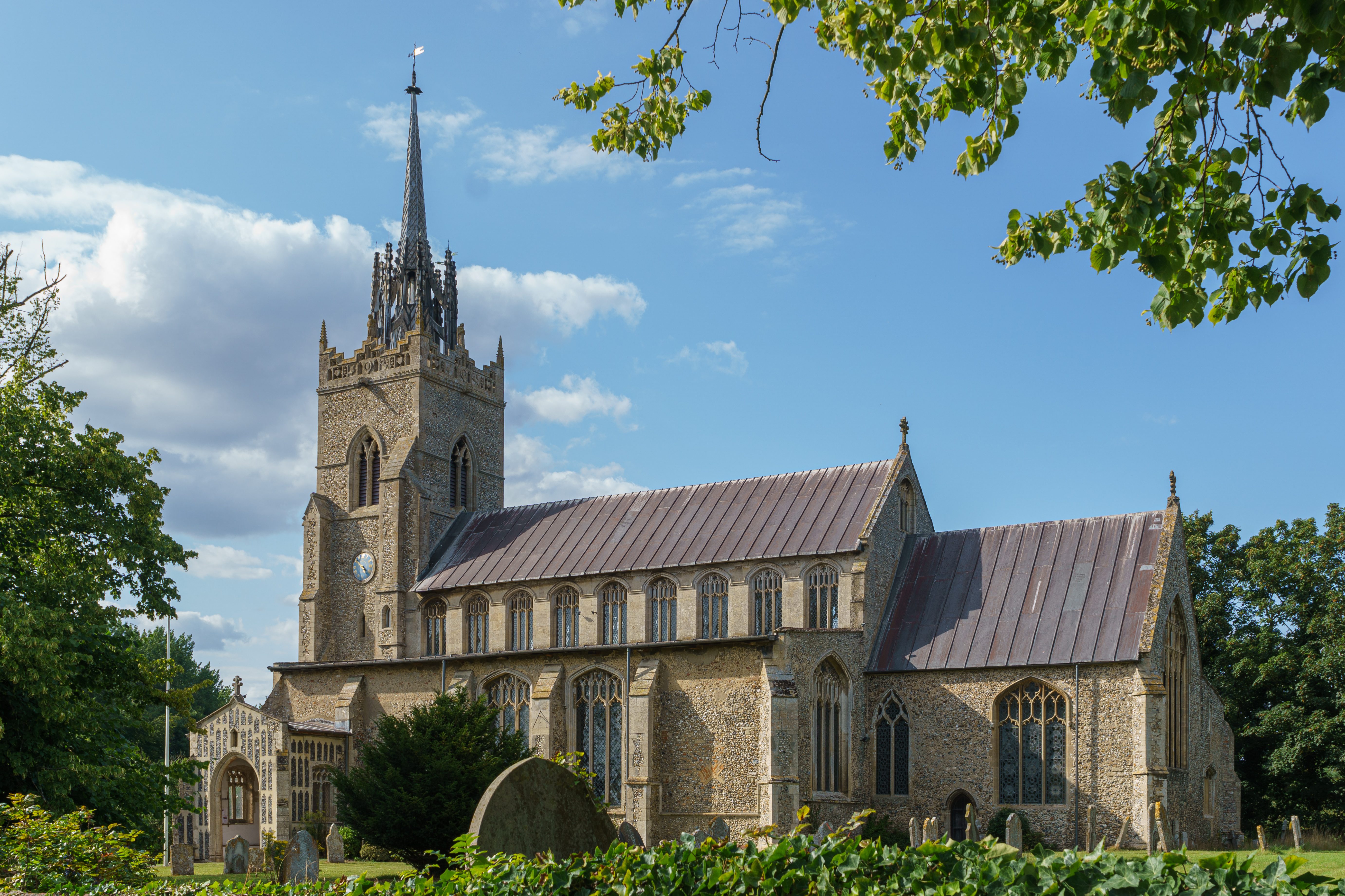 View from south east, church of St Peter and St Paul, East Harling Wikidata has entry Q17534678 with data related to this item.